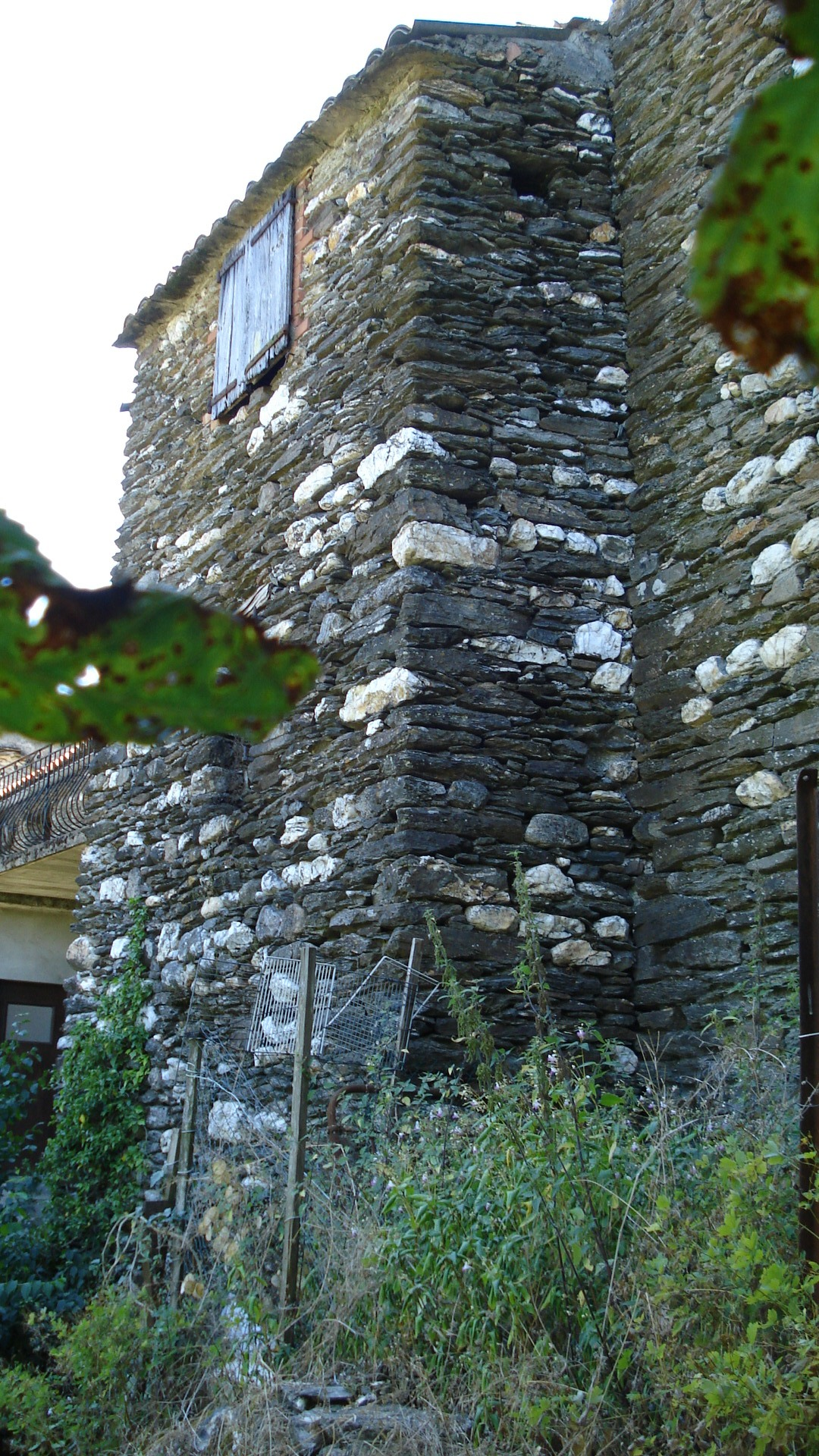 a house made with schiste and quartz in Saint-Étienne-Vallée-Française (Lozère)